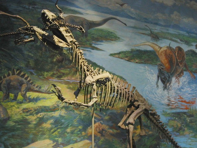 Photo of the Sinraptor hepingensis(syn. Yangchuanosaurus hepingensis) dinosaur skeleton, a type of carnosaur, on display in the Dinosaur Museum Zigong, China. The museum claims to be the largest collection of dinosaur fossils in the world. I took this photo in 2004. (Art Yang - 2004)